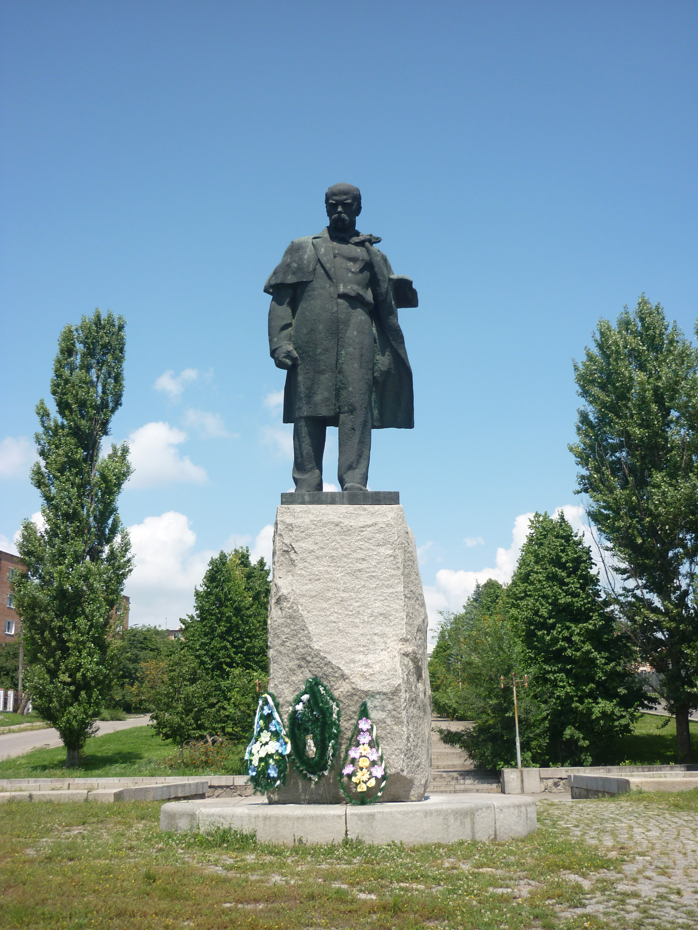 Taras Shevchenko monument in Uman